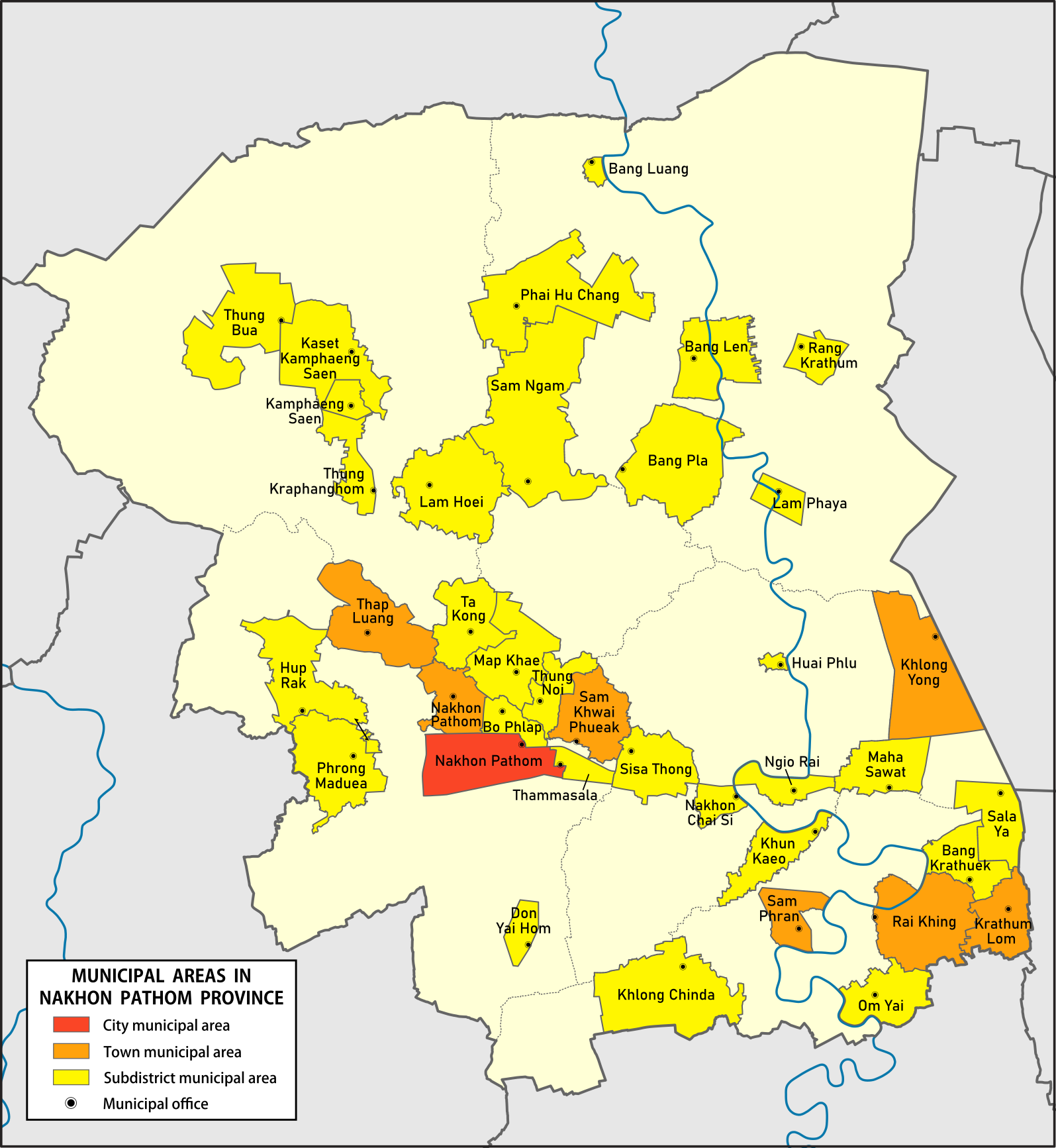 Map of municipal areas in Nakhon Pathom Province: City municipalities (thetsaban nakhon) Town municipalities (thetsaban mueang) Subdistrict municipalities (thetsaban tambon)